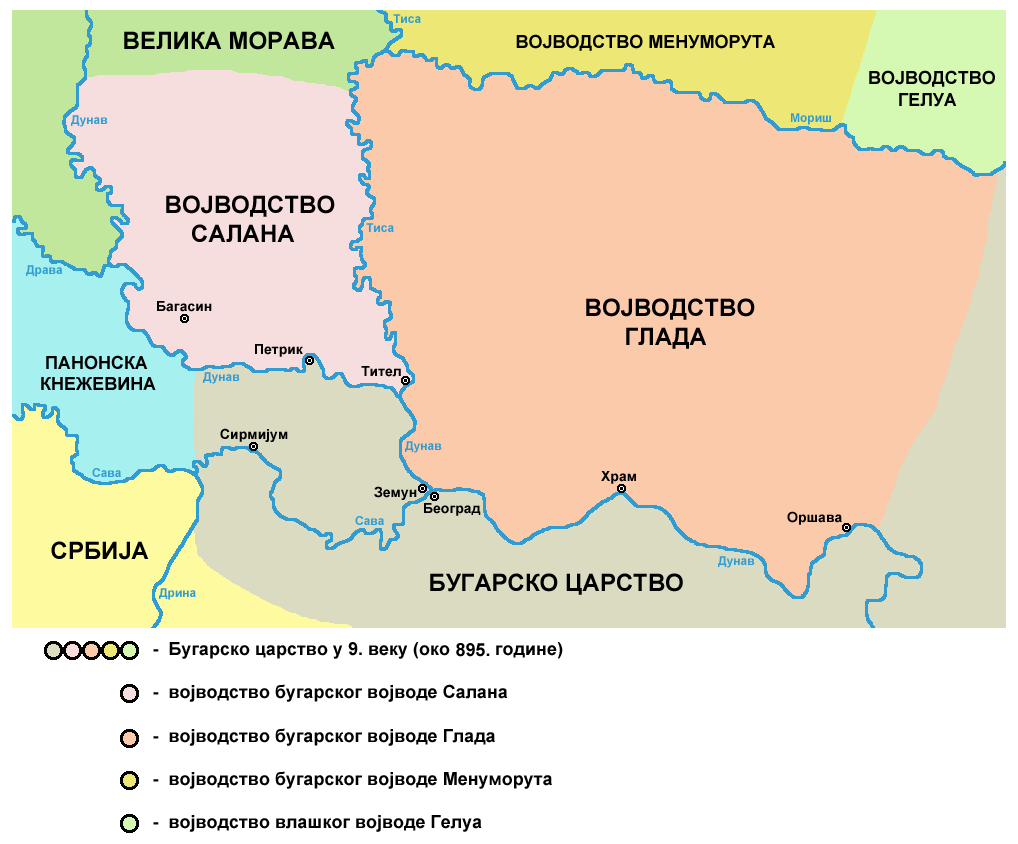 historical map of medieval duchies of Bulgarian dukes Salan and Glad (9th century) - Serbian language version.